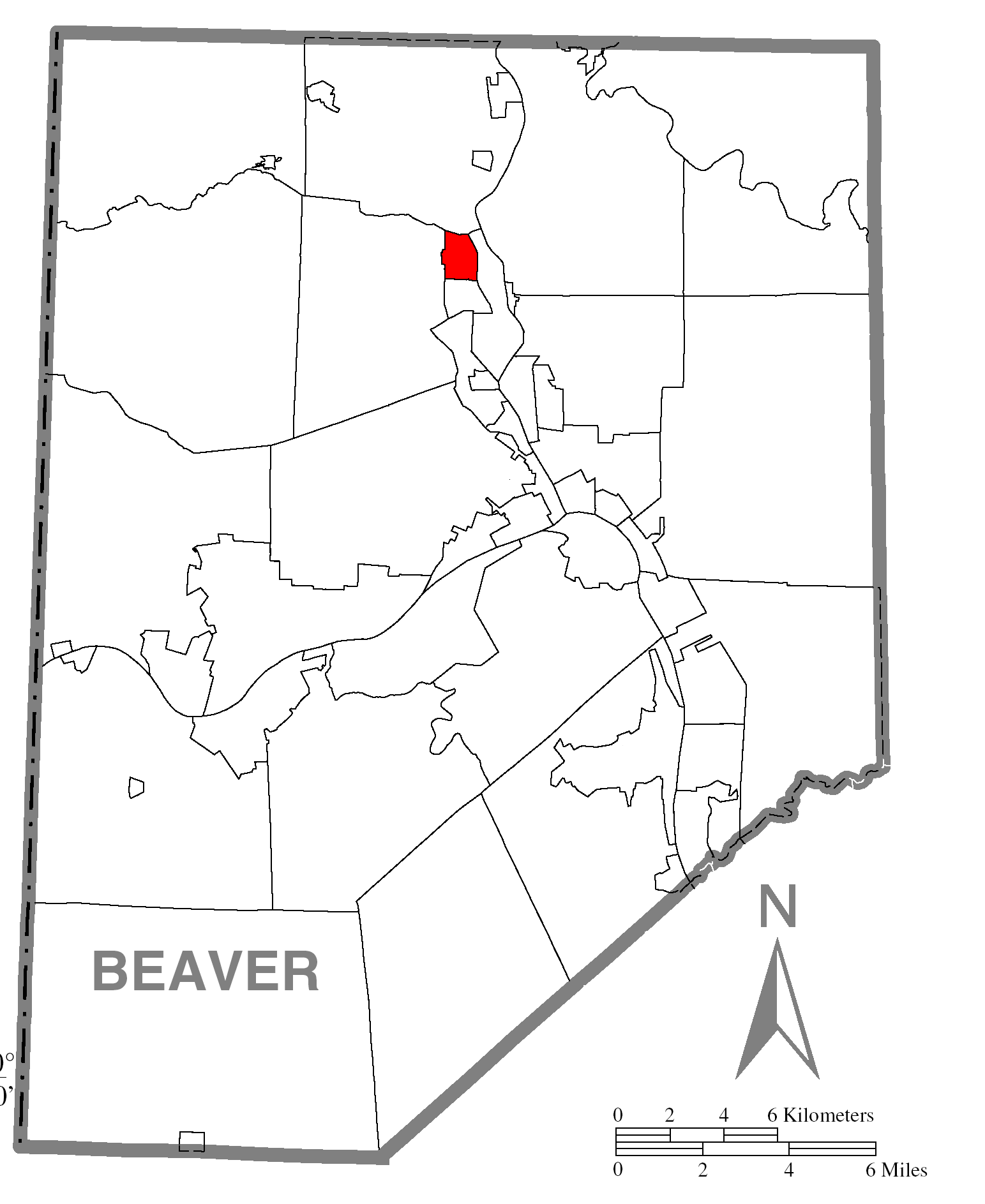 A map of Beaver County showing West Mayfield, Pennsylvania (alternate) highlighted on the map.